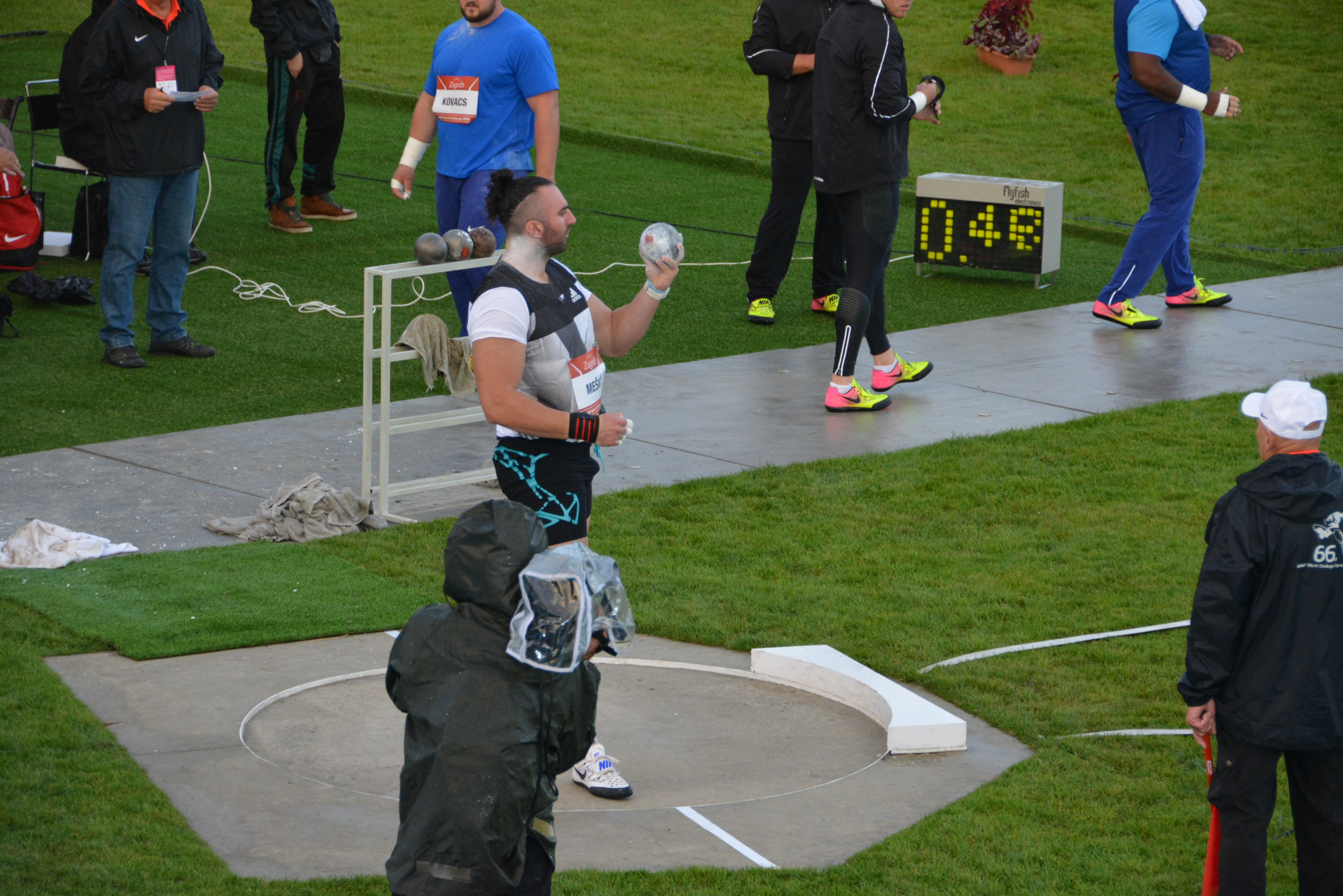 Kemal Mešić at the 2016 Hanžeković Memorial in Zagreb.